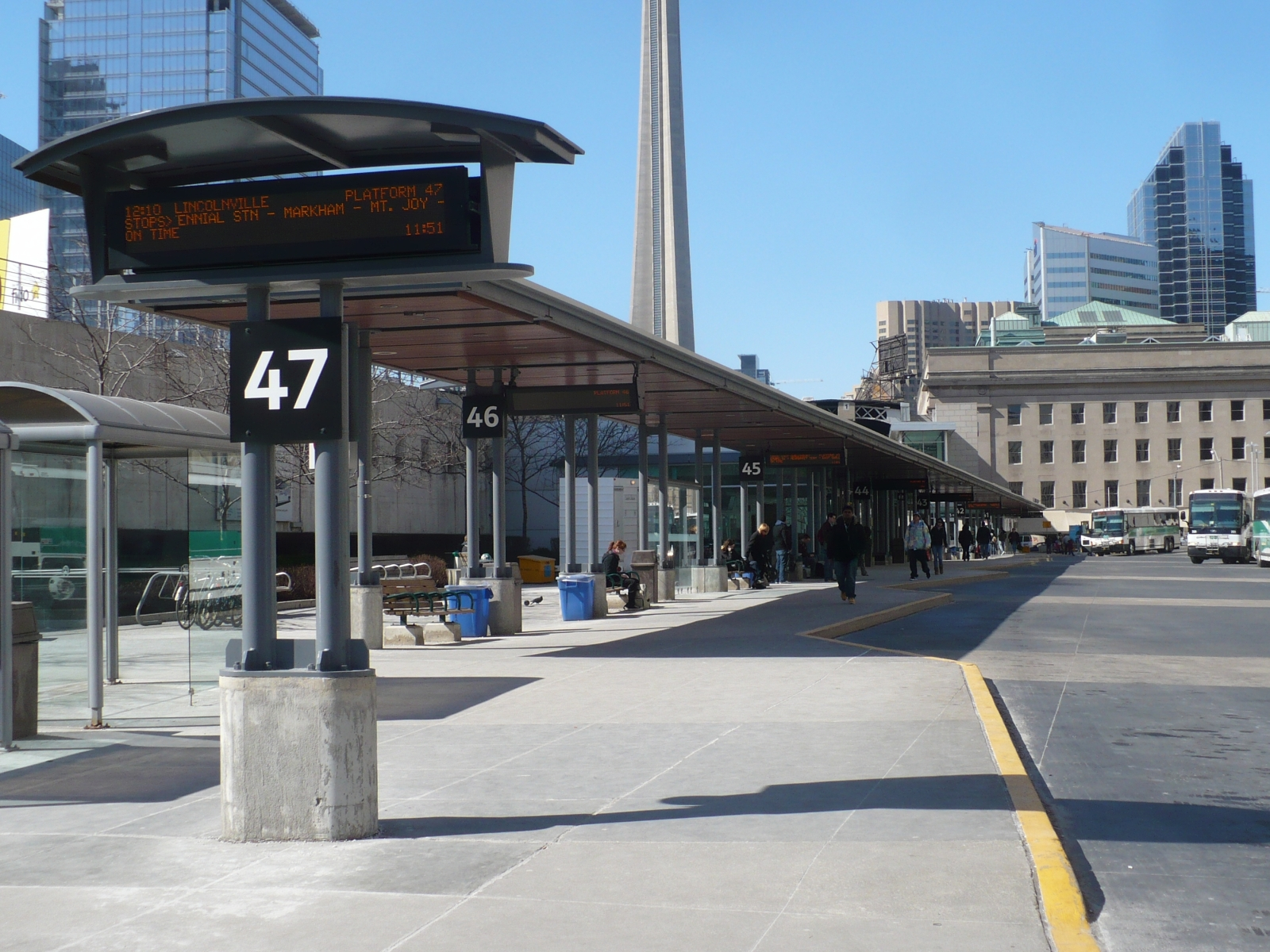 Union Station Bus Terminal in Toronto. View of the bus platforms